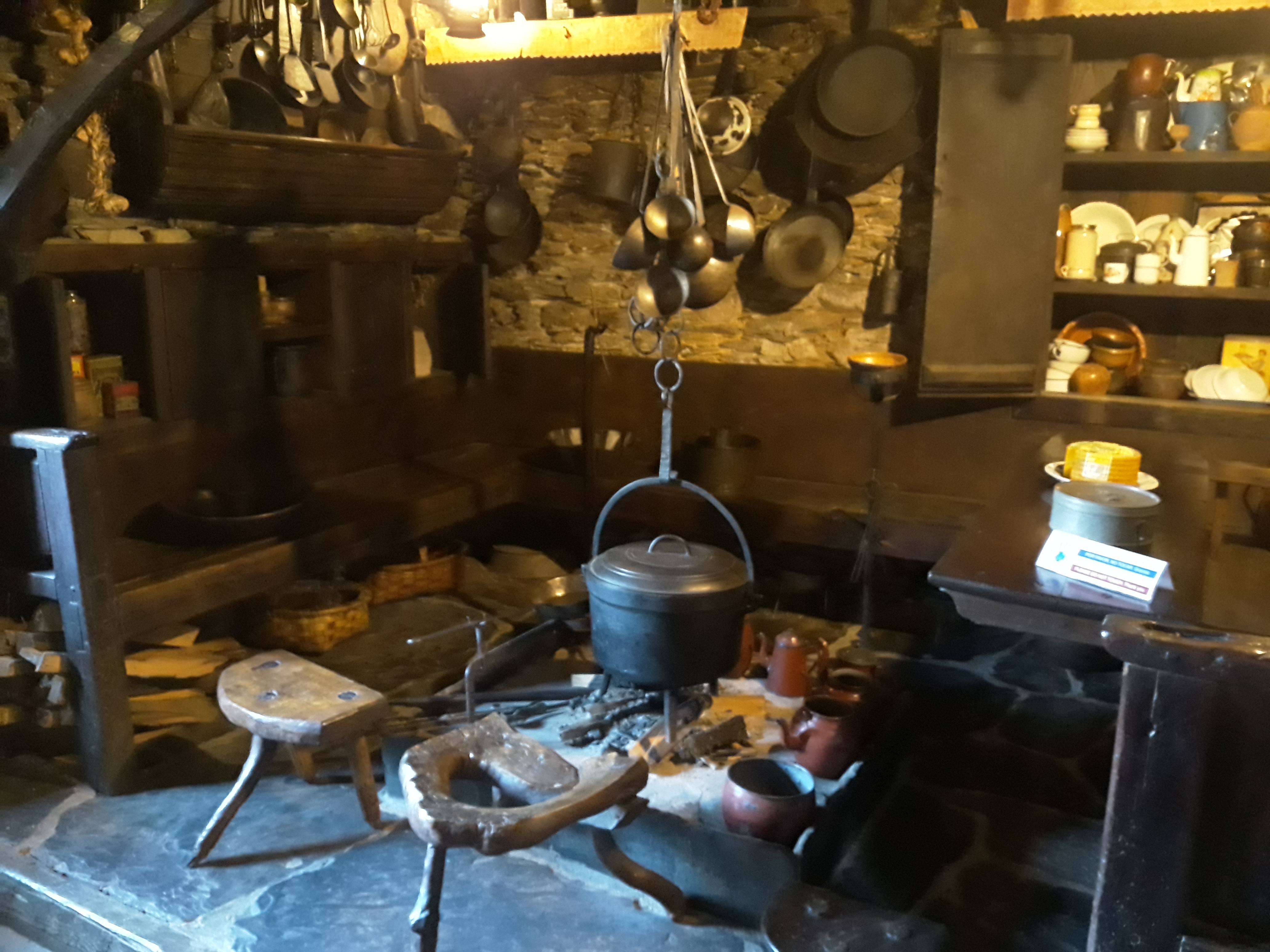 Ethnographic Museum of Grandas de Salime, Asturias, Spain.